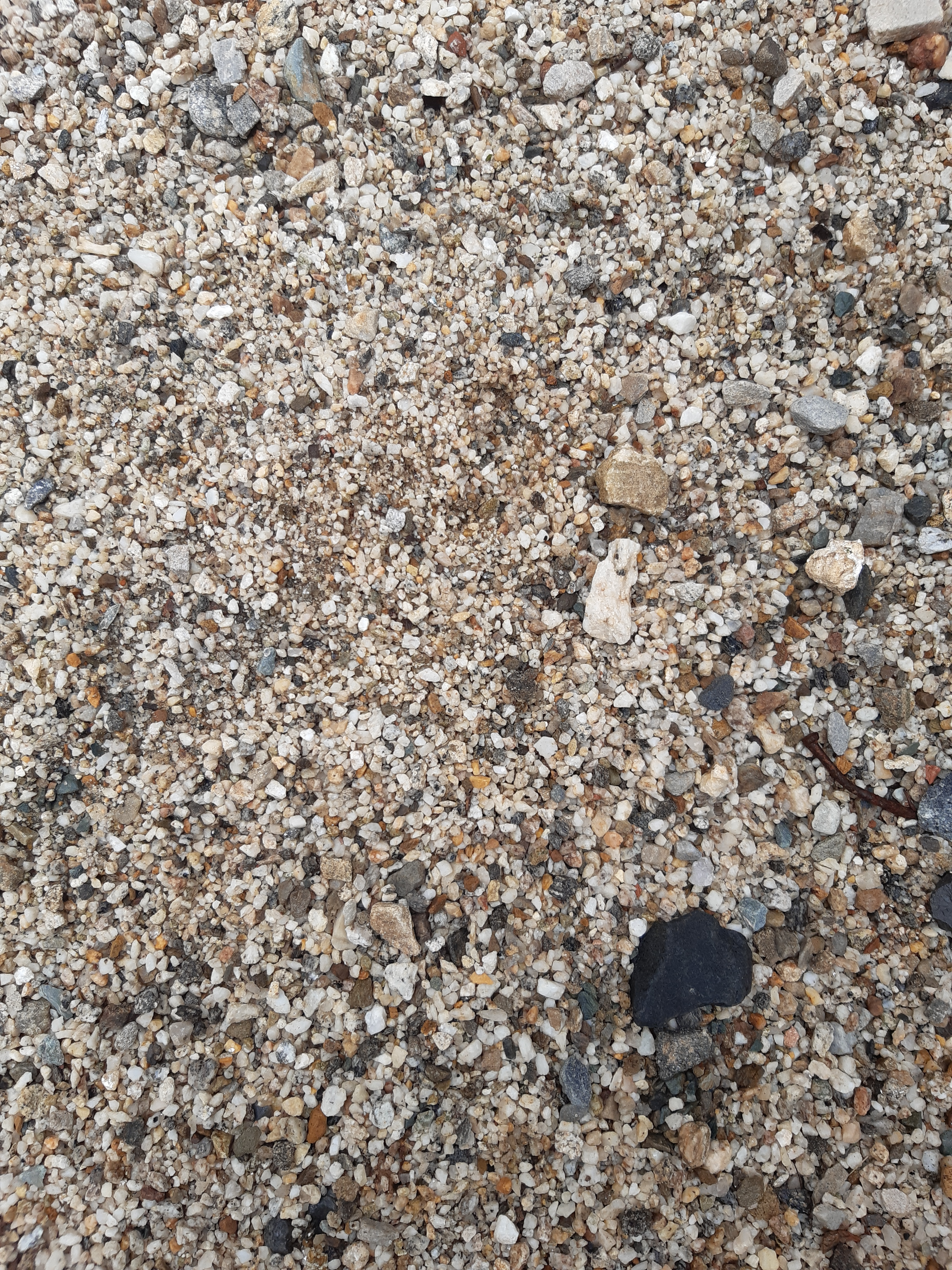 Gravel is a loose aggregation of rock fragments. Gravel is classified by particle size range and includes size classes from granule- to boulder-sized fragments. In the Udden-Wentworth scale gravel is categorized into granular gravel (2 to 4 mm or 0.079 to 0.157 in) and pebble gravel (4 to 64 mm or 0.2 to 2.5 in). ISO 14688 grades gravels as fine, medium, and coarse with ranges 2 mm to 6.3 mm to 20 mm to 63 mm. One cubic meter of gravel typically weighs about 1,800 kg (or a cubic yard weighs about 3,000 pounds).